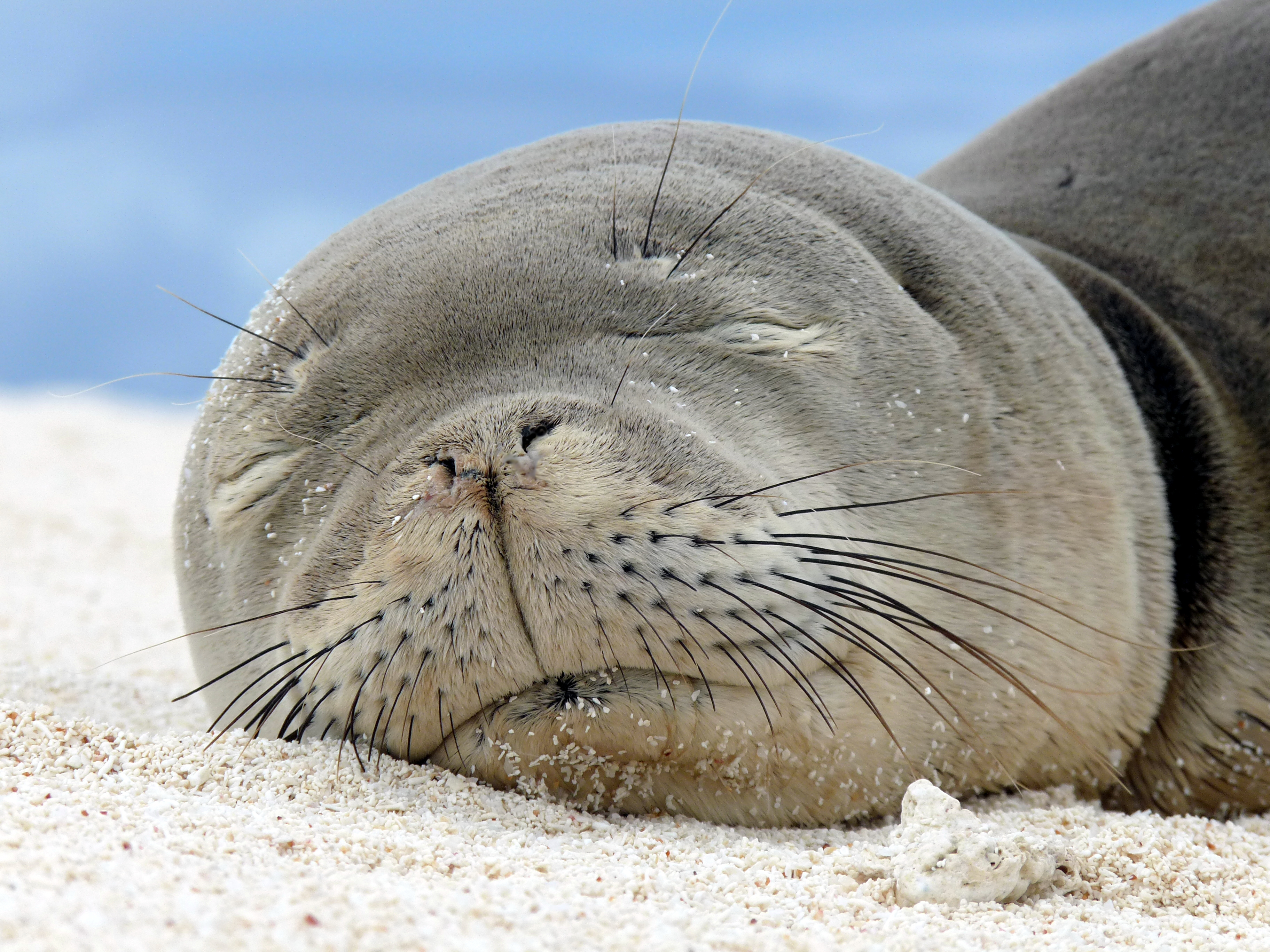 A newly weaned Hawaiian monk seal pup sleeps soundly at Trig Island, French Frigate Shoals.